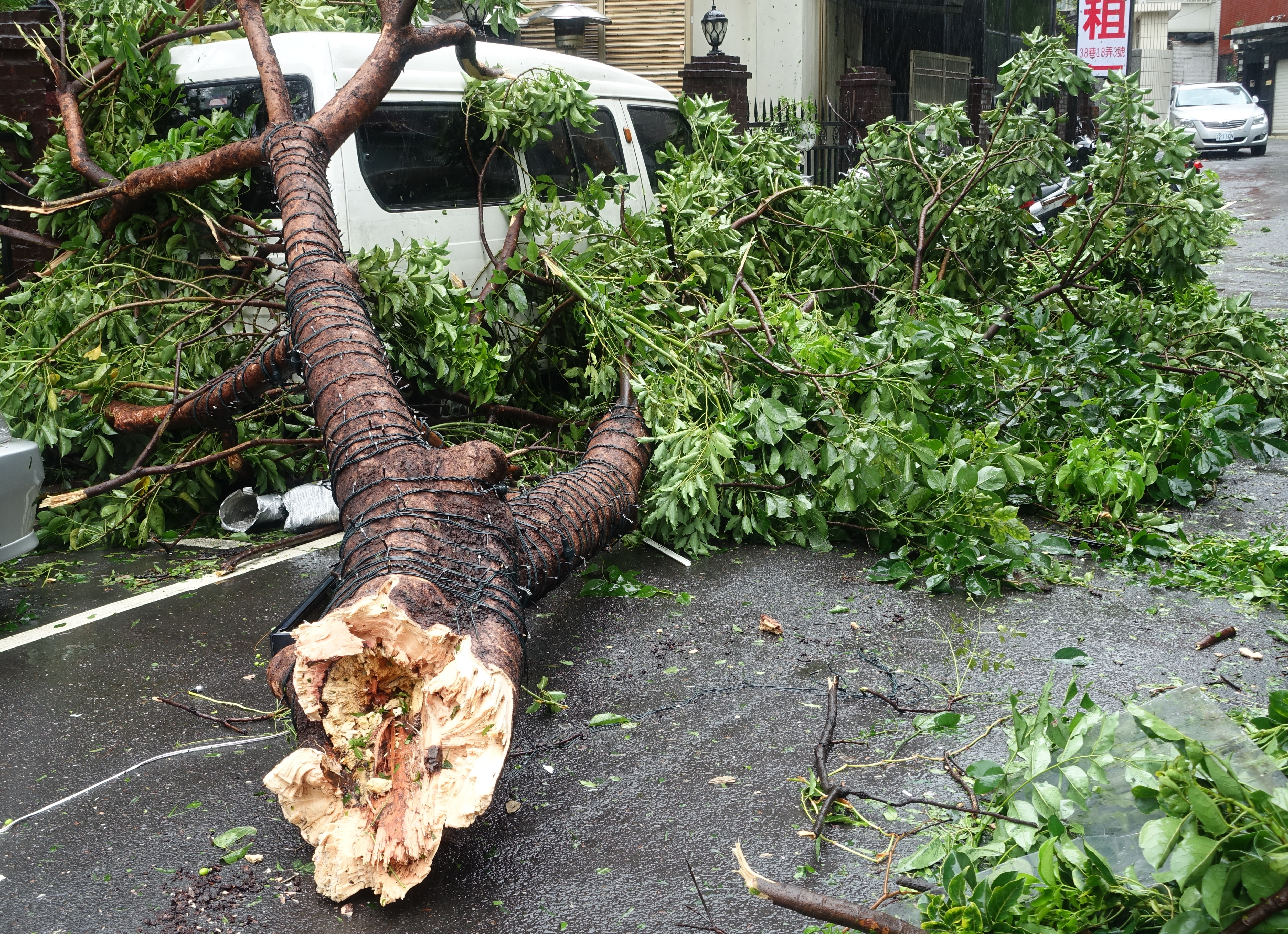 Street of Taipei, after typhoon Soudelor